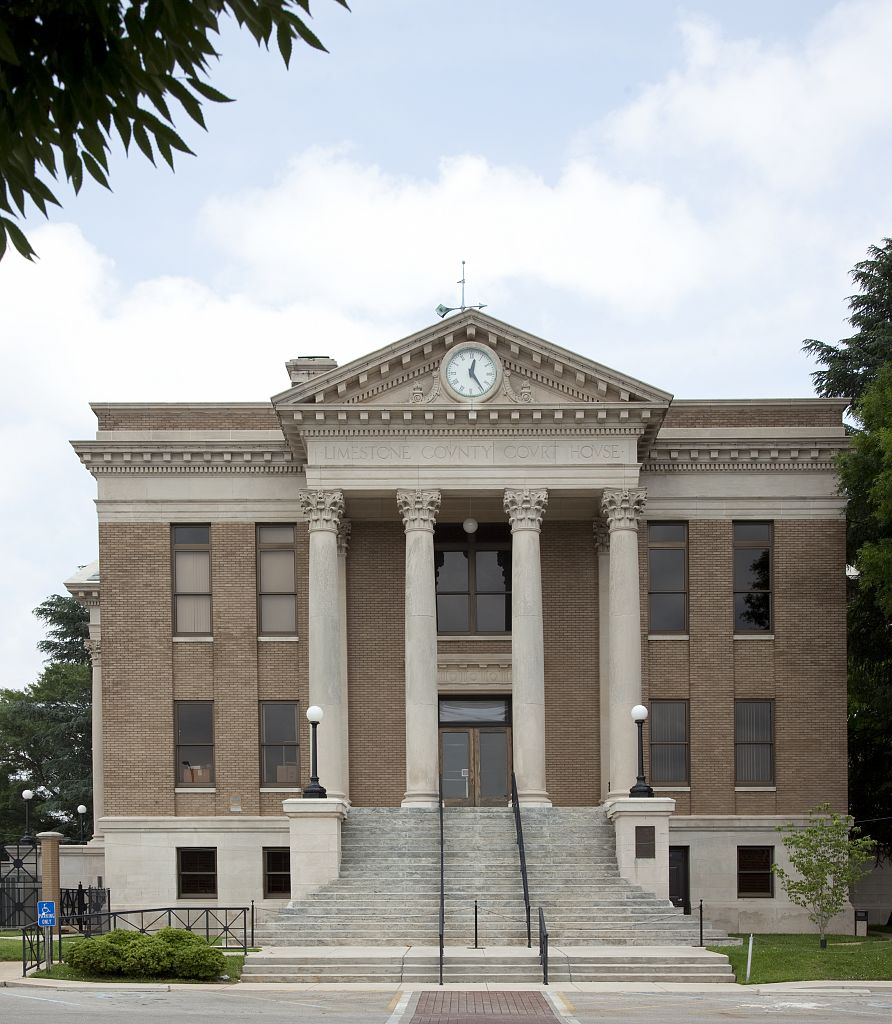 Limestone County Courthouse located in the center of downtown Athens, Alabama.